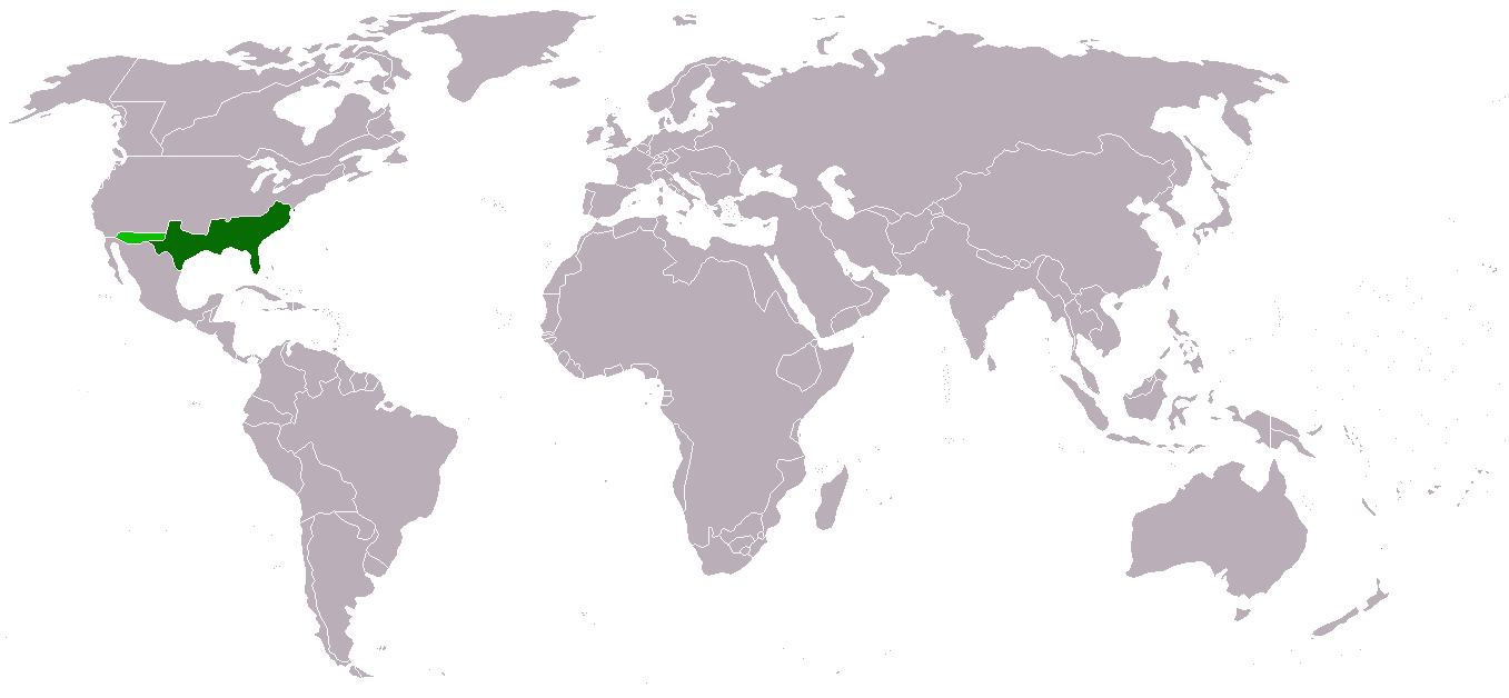 Confederate States of America location